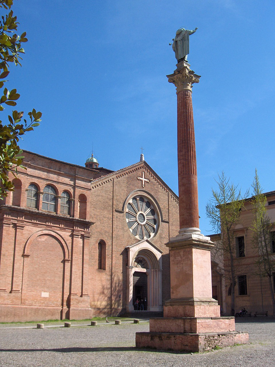 column with the bronze statue of St. Dominic's Blessing (1623) in front of the Basilica of Saint Dominic, Bologna, Italy